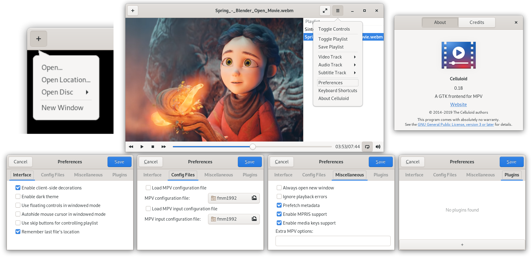 GNOME MPV (Celluloid) 0.18 with its preferences This PNG graphic was created with GIMP.